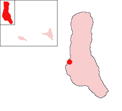 Moroni, Grande Comore, Comoros Location Map; created with the GIMP. Made by User:Acntx.